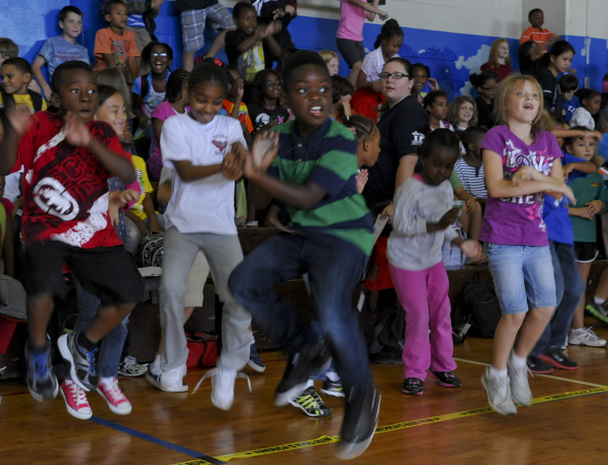 Children dance to "Gangnam Style" by Korean artist PSY during a pep rally at the Kadena Teen Center on Kadena Air Base, Japan, Nov. 2, 2012. The Toy Industry Foundation in conjunction with the Boys & Girls Club of America gave away 1,900 toys to military members' children stationed at Kadena.